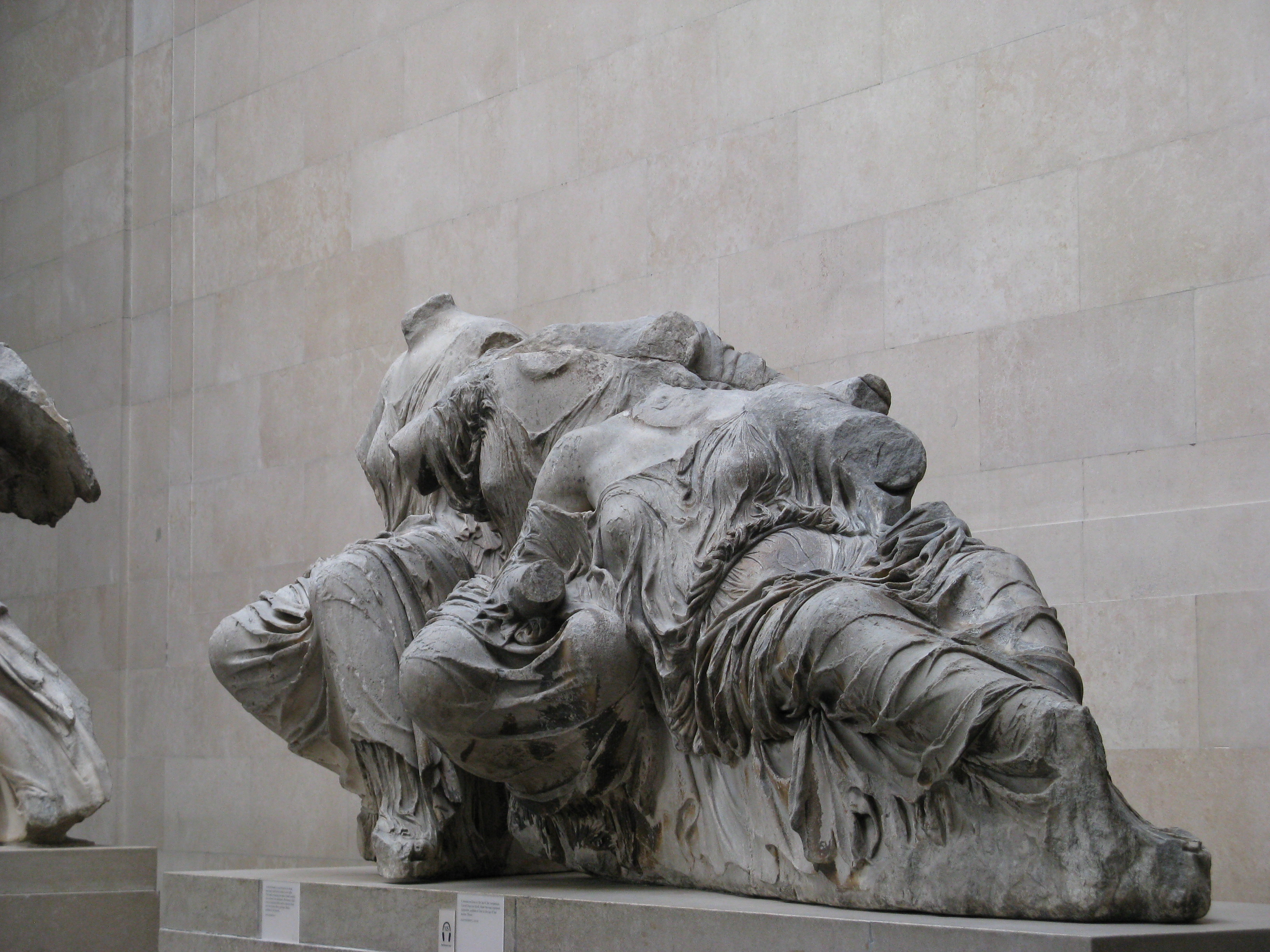 Three goddesses-from Parthenon east pediment at the British Museum. Perhaps from left: Hestia and Aphrodite reclining in the lap of her mother, Dione.